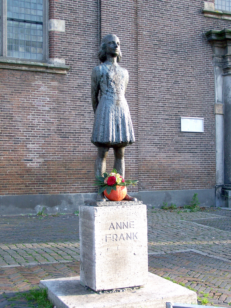 Statue Anne Frank in Utrecht, made by Pieter d'Hont in 1959 and placed 12 april 1960 at the Janskerkhof.